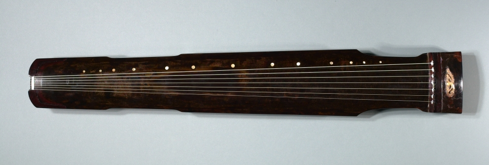 A picture of the guqin Lingfeng Shenyun (靈峰神韻) in the Zhongni form